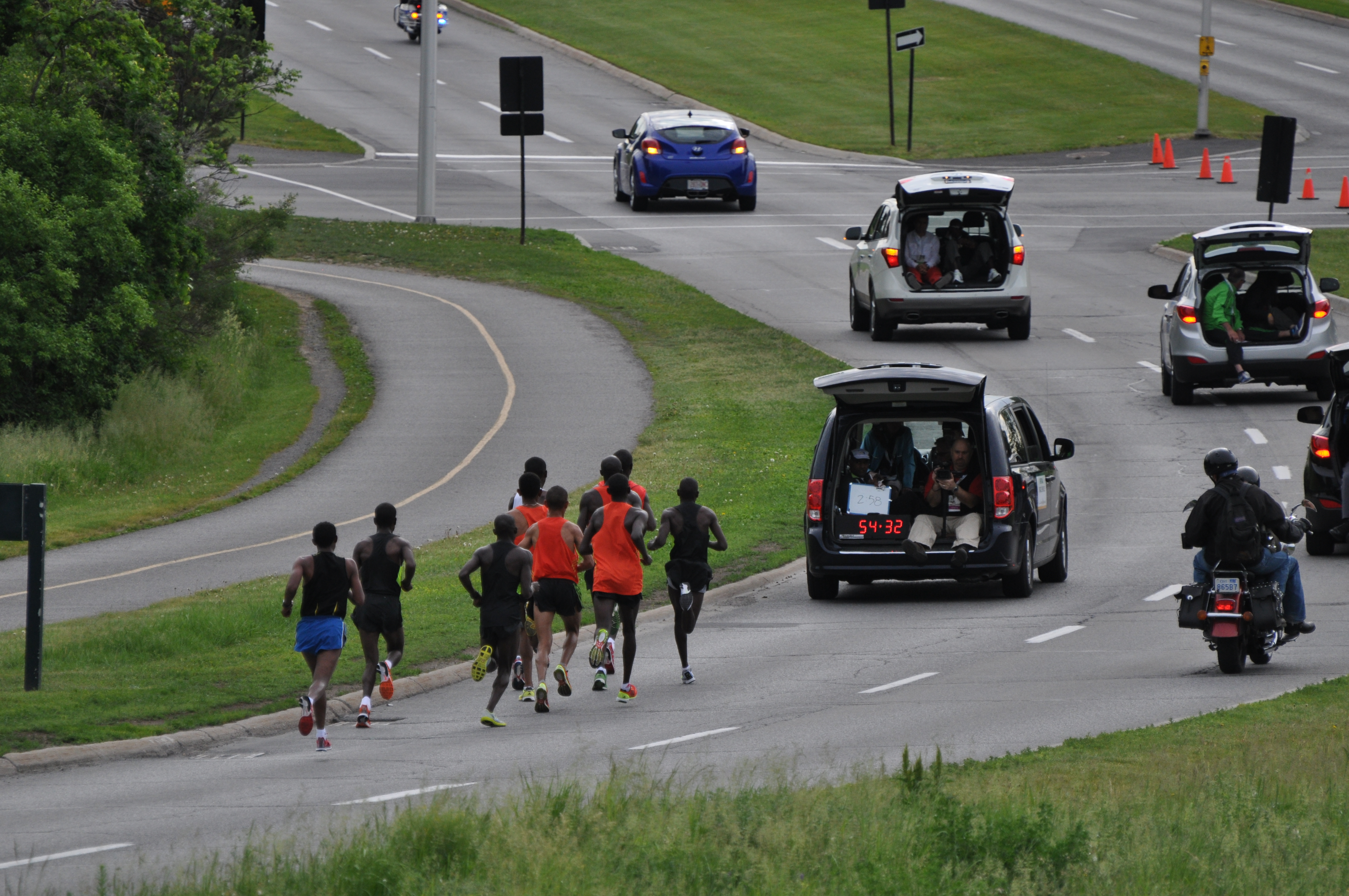 The lead group of the 2012 Ottawa Marathon, heading east on the Ottawa River Parkway, approach the River Street intersection just after the 18 km mark.